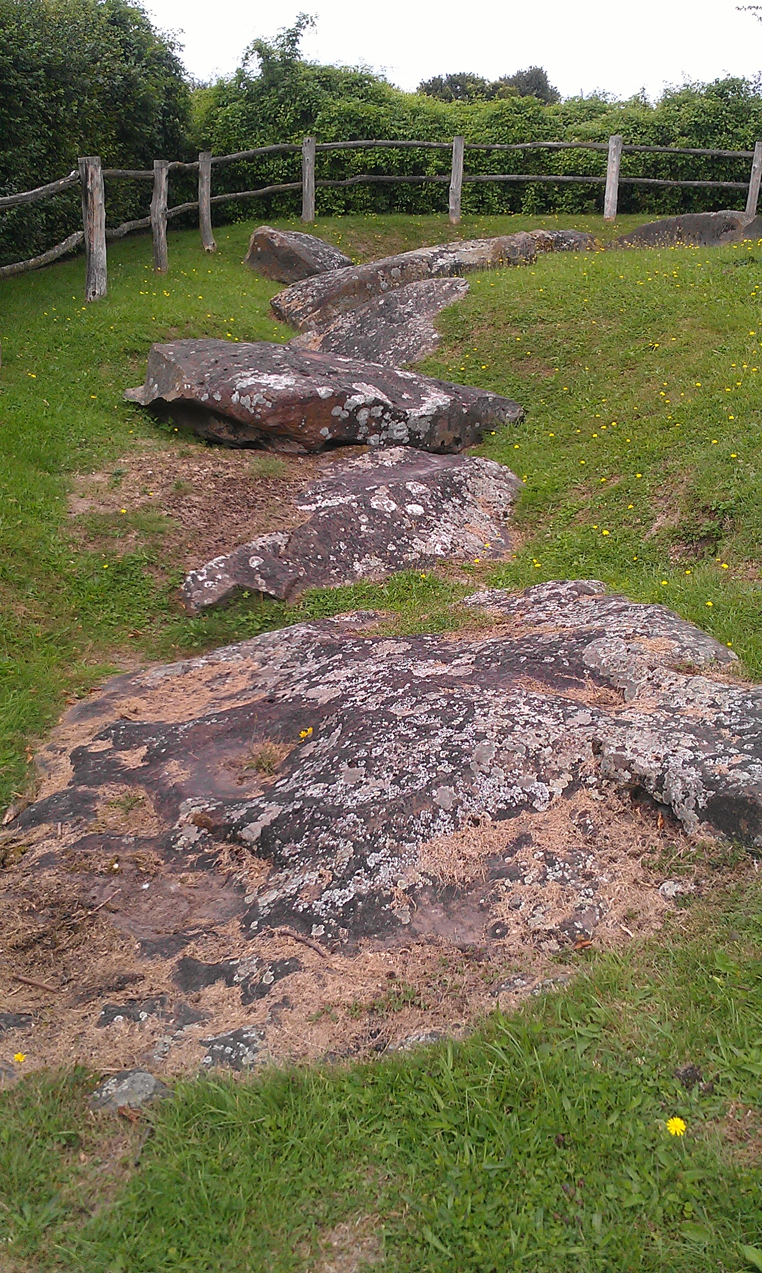 These megaliths formed a part of one side of the Neolithic Coldrum Long Barrow in Kent.